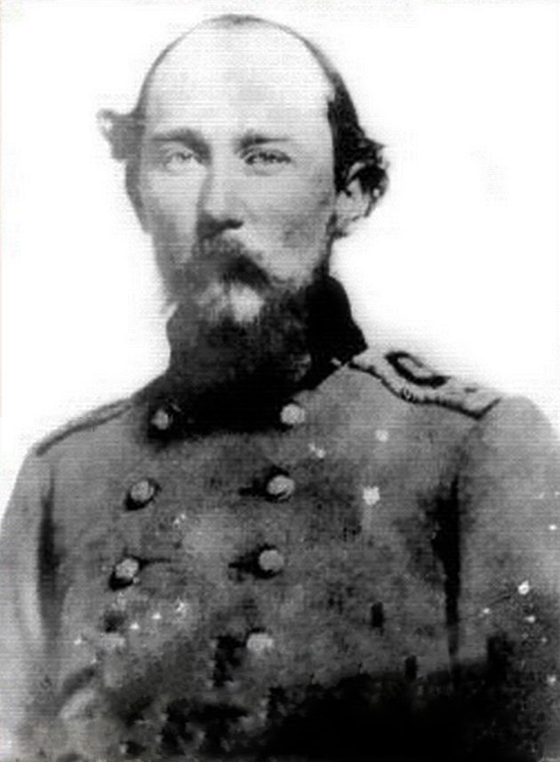 Benjamin Hardin Helm - CSA